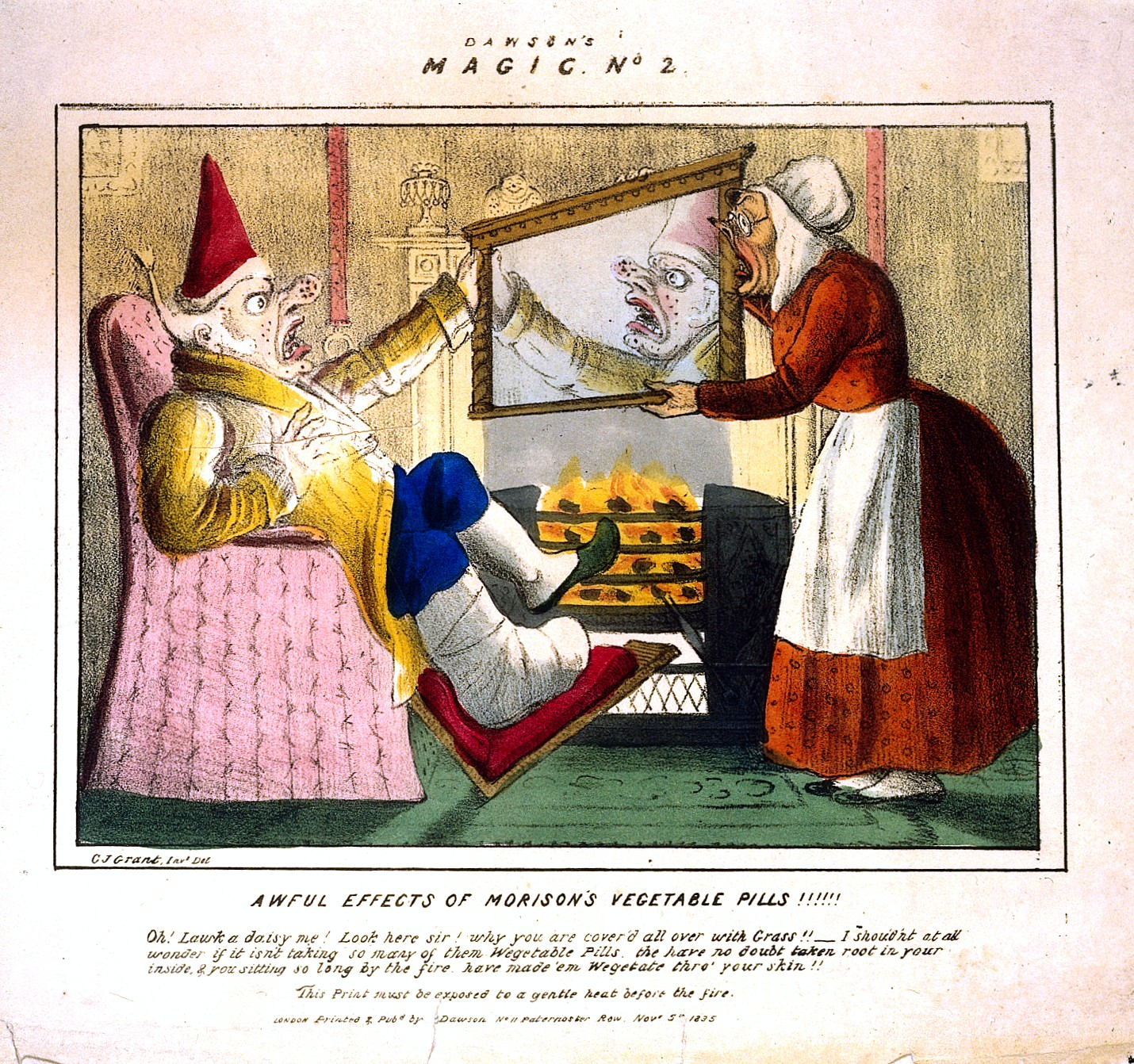 "Awful effects of Morison's vegetable pills!" Iconographic Collections Keywords: Charles Jameson Grant; Charles Jameson Grant